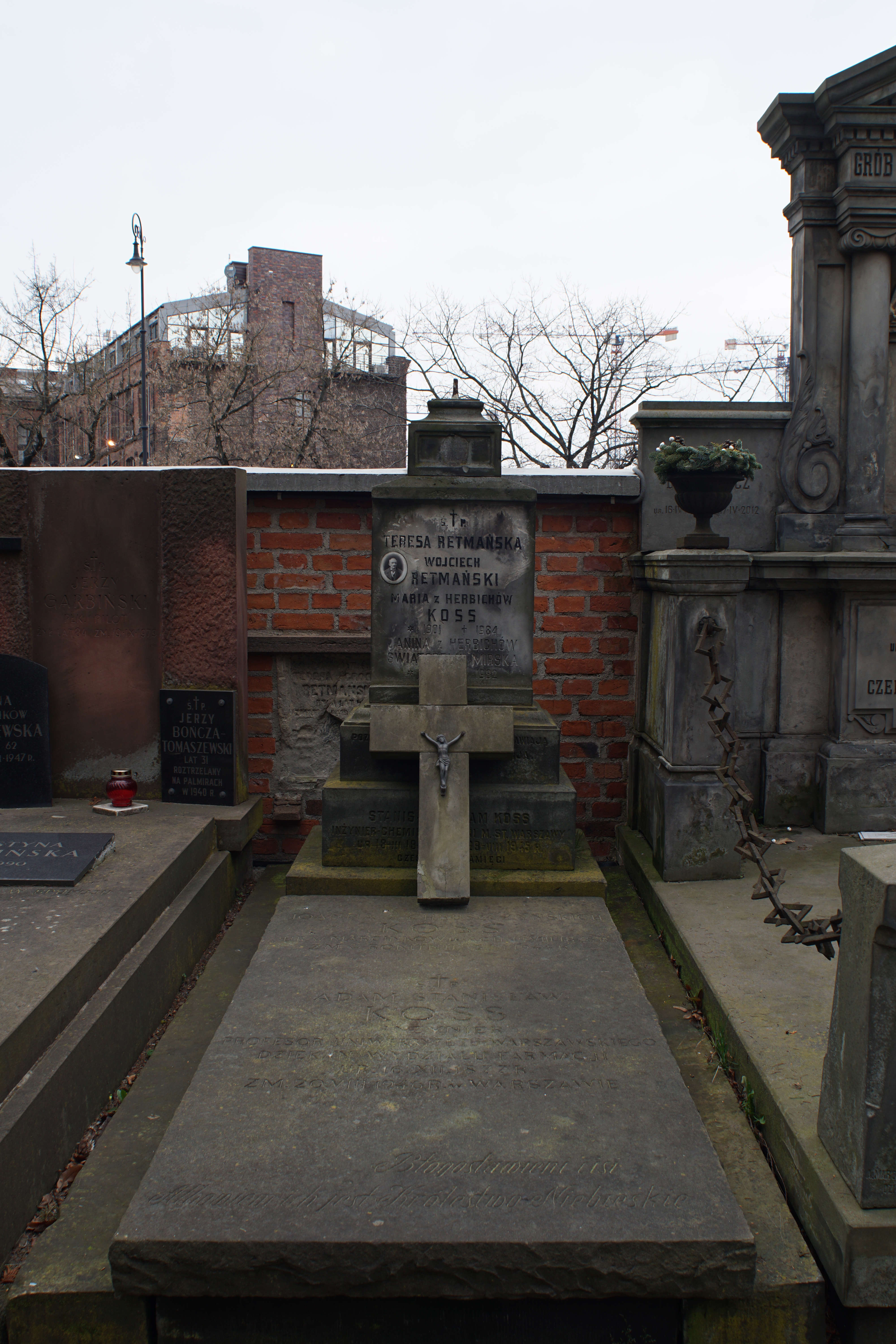 The grave of Adam Koss at the Powązki Cemetery (section Under the Wall 2, row 1, grave 24)